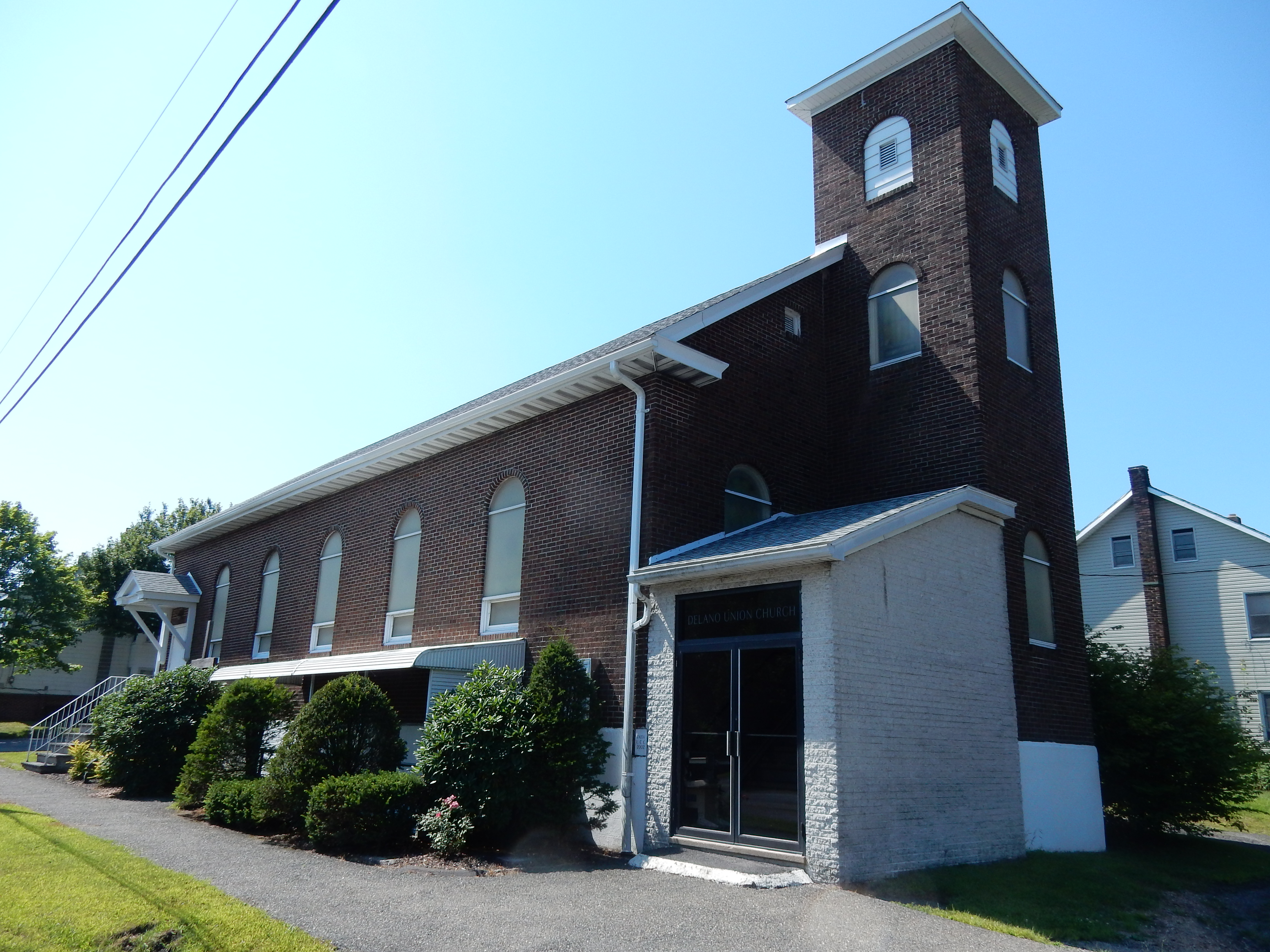 Delano Union Church on Hazle St., Delano CDP, Delano Township, Schuylkill County, Pennsylvania. Corner of Lakeside Ave.